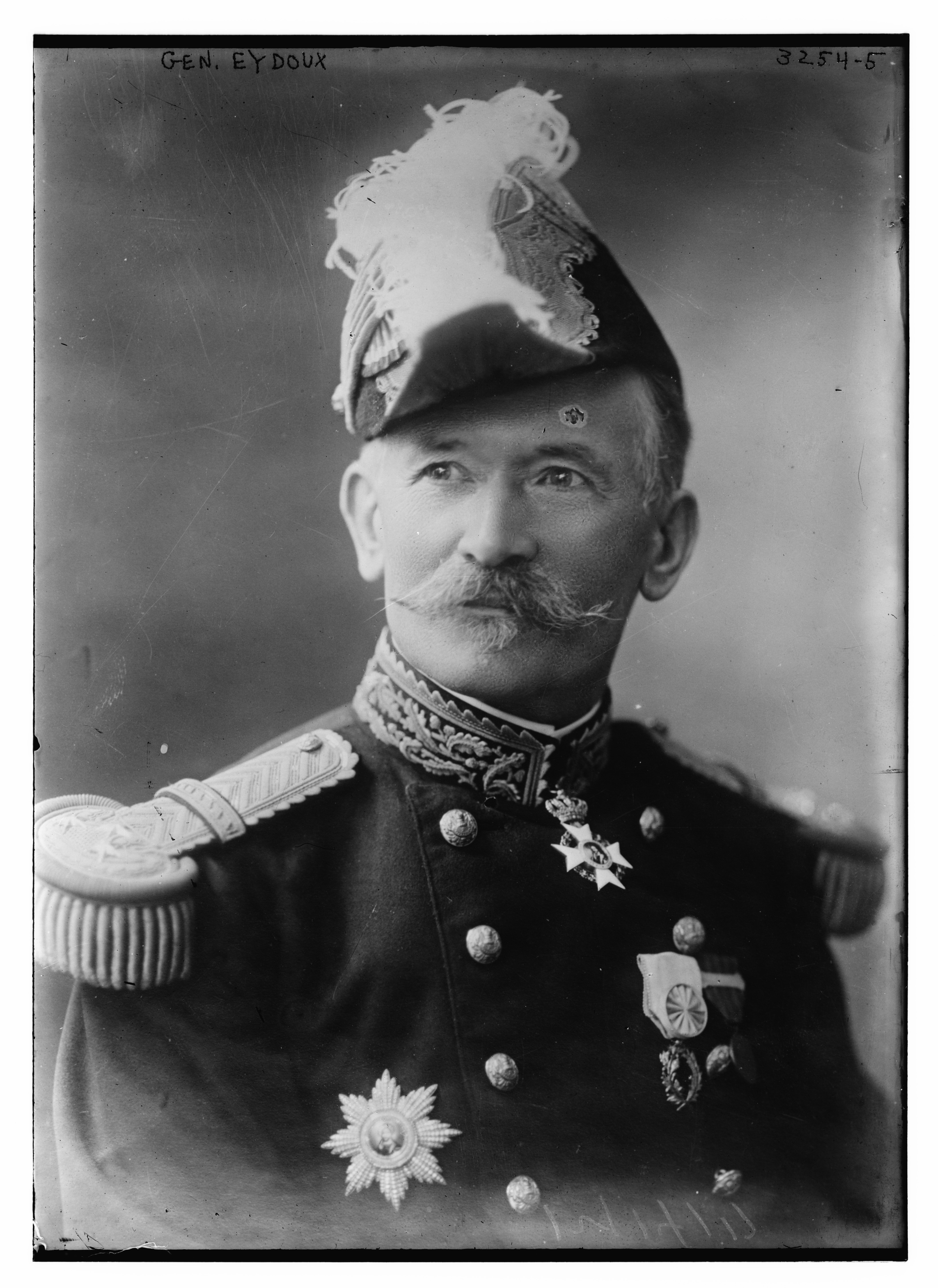 Title: Gen. Eydoux Abstract/medium: 1 negative : glass ; 5 x 7 in. or smaller.